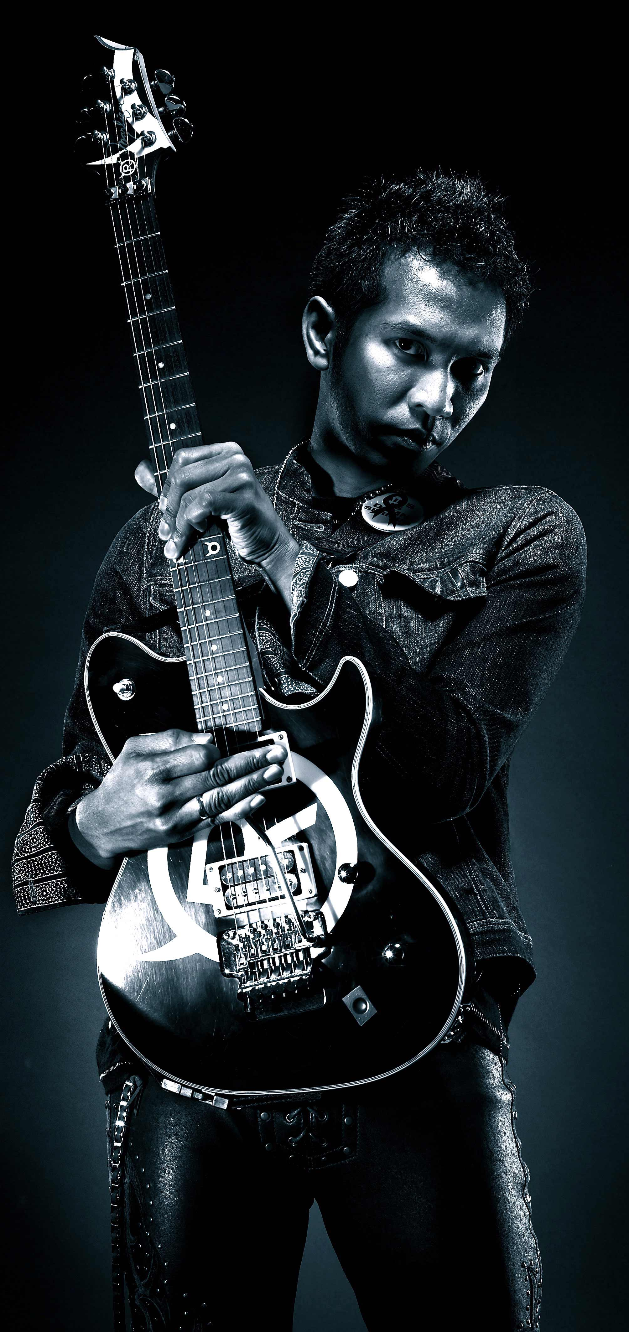 Indonesian guitarist Mohammad Ridwan Hafiedz, also called Ridho